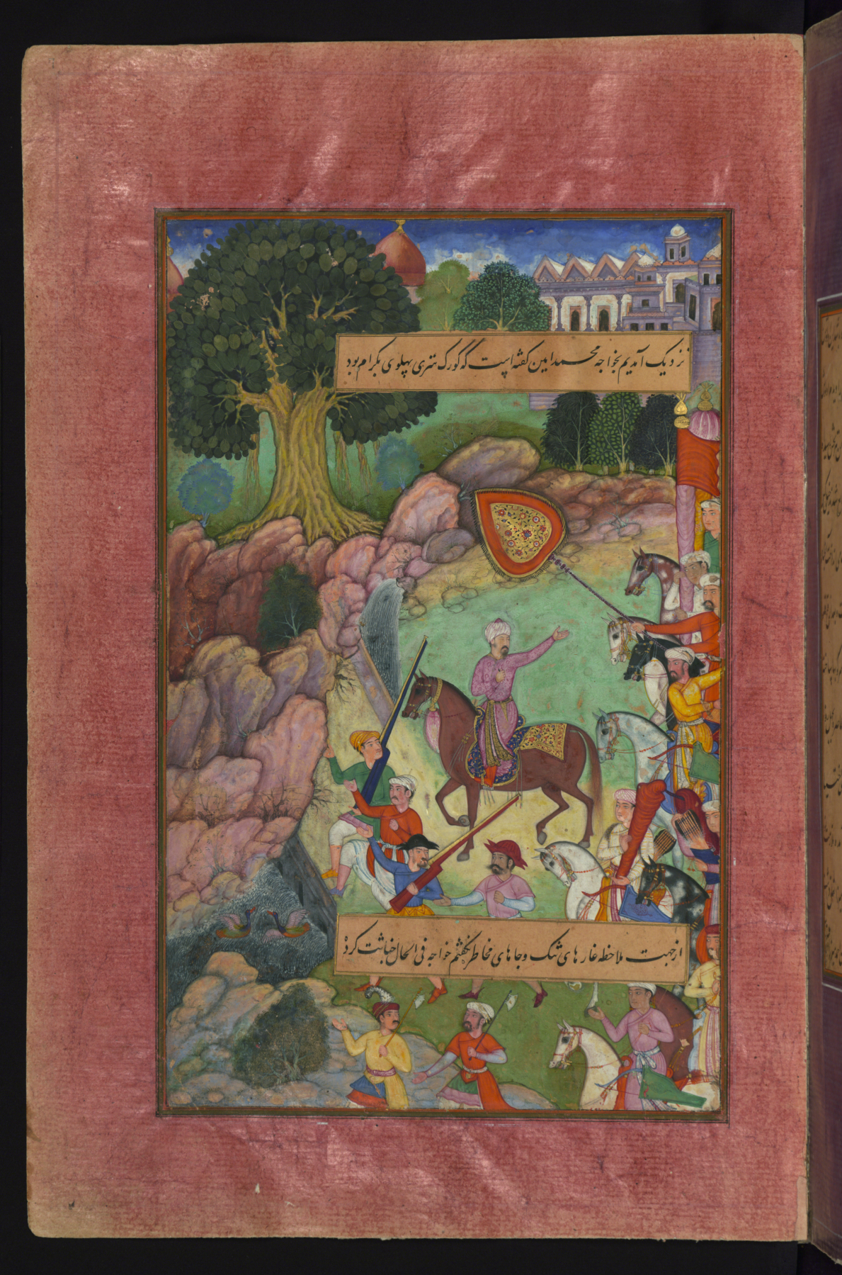 On this folio from Walters manuscript W.596, on their way to Hindustan, Babur and his men stop for the night before crossing the Indus River.